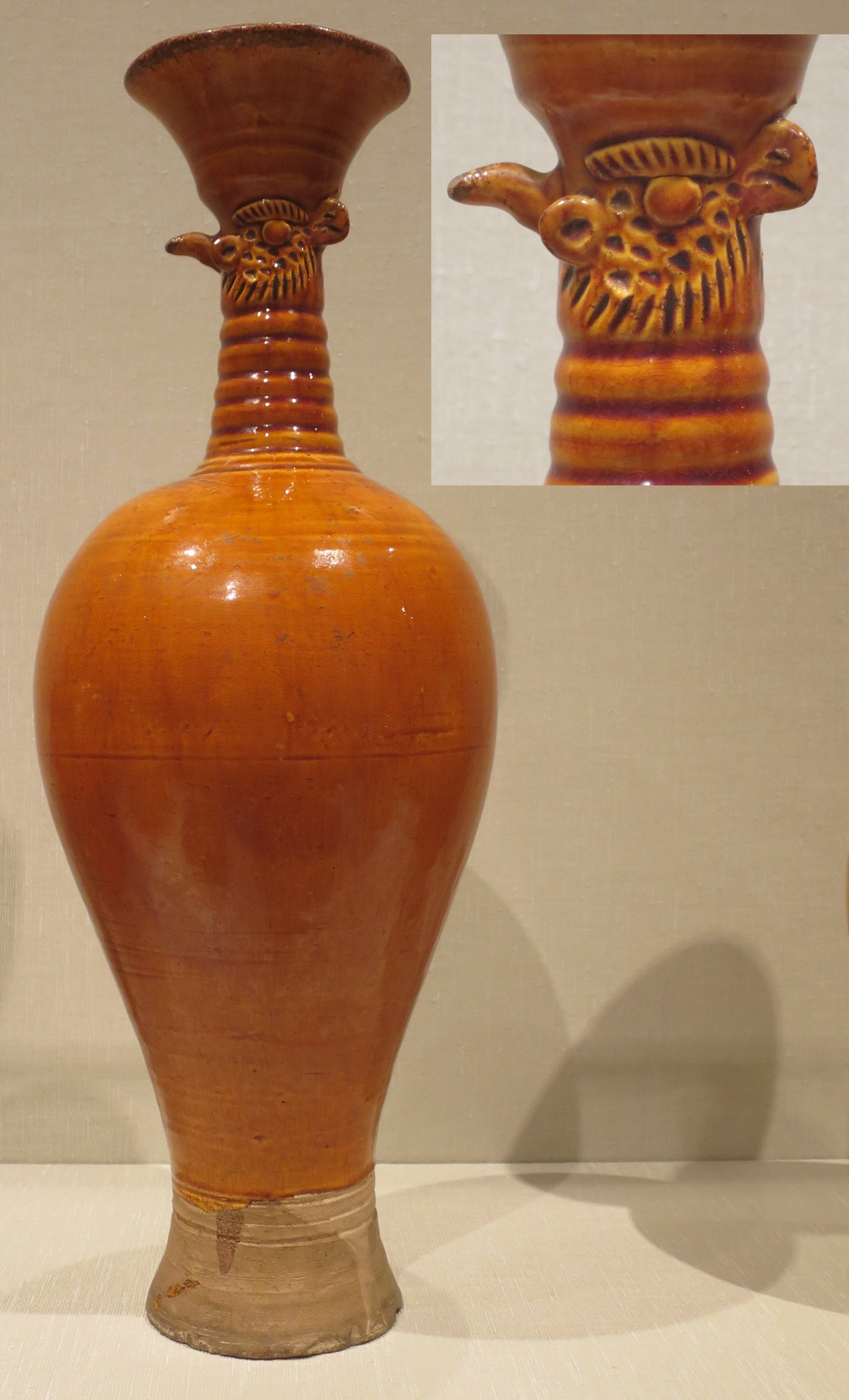 Chinese vase with bird head design, Liao dynasty, earthenware with glaze, Honolulu Museum of Art, accession 4027.1